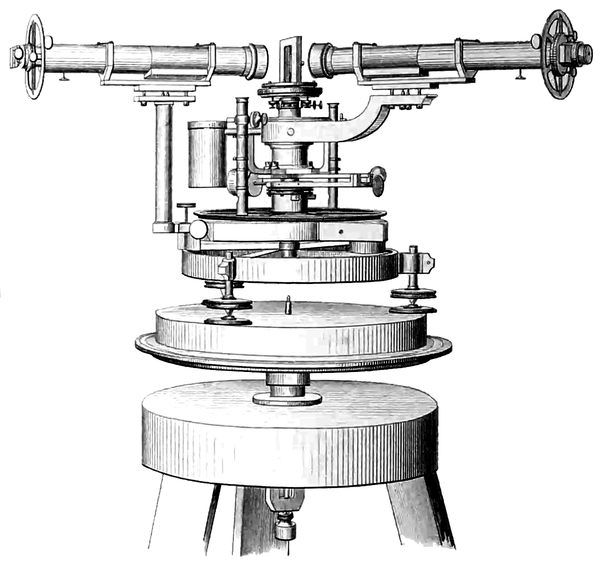 The spectrometer is made of a goniometer and a diffraction grating. On the left, the slit and the collimator. In the center, the diffractiion grating. On the right, the objective through which the light is observed.